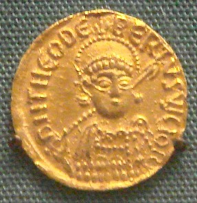 Theodebert_I_534_548_king_of_Metz